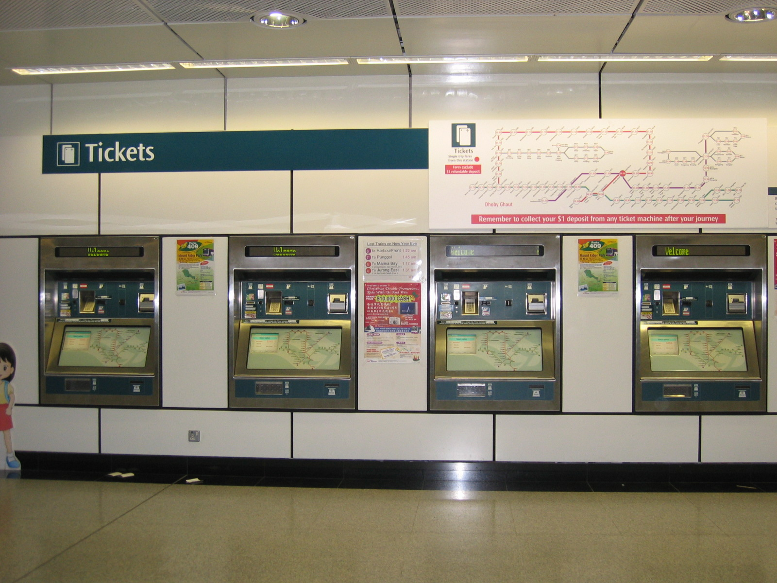 General ticketing machines (GTMs) at the North East Line section of Dhoby Ghaut MRT Station in Singapore.